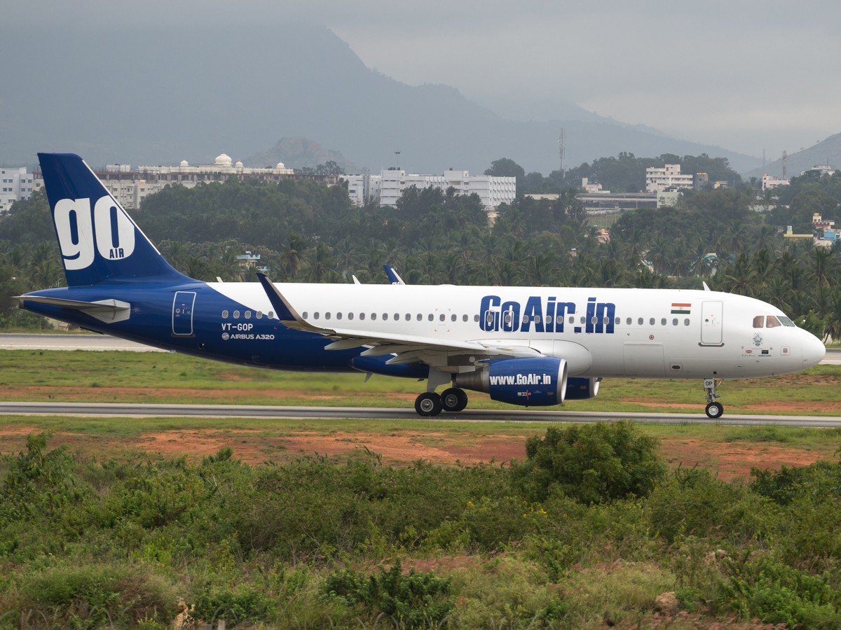 GoAir Airbus A320 registered VT-GOP at Kempegowda Intl Airport Bengaluru